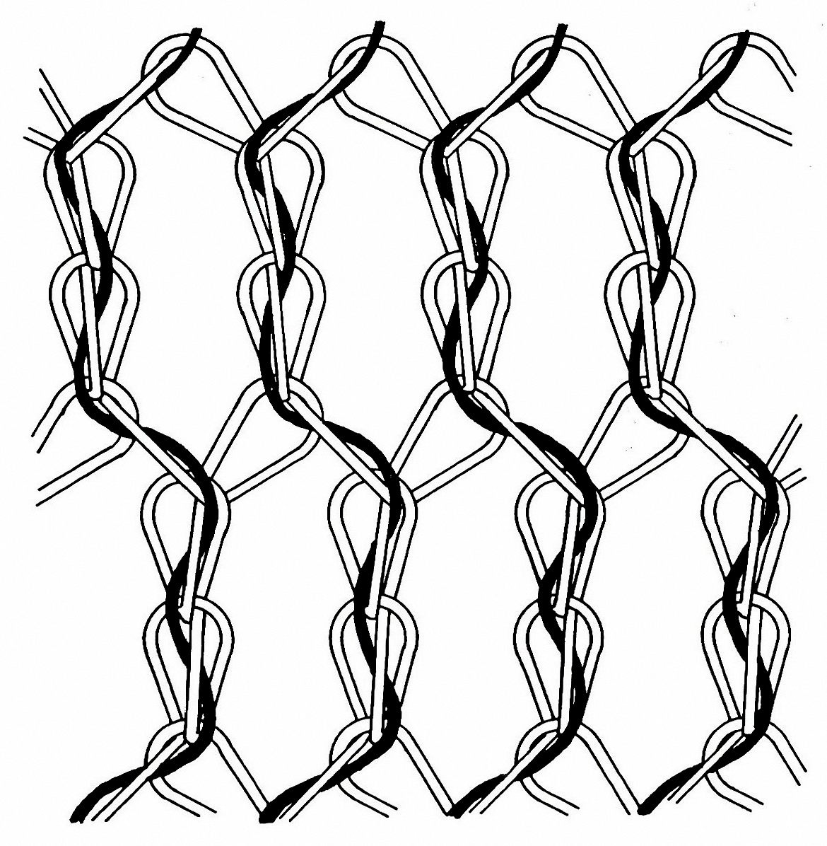 Tulle lace ground made on Raschel-machine